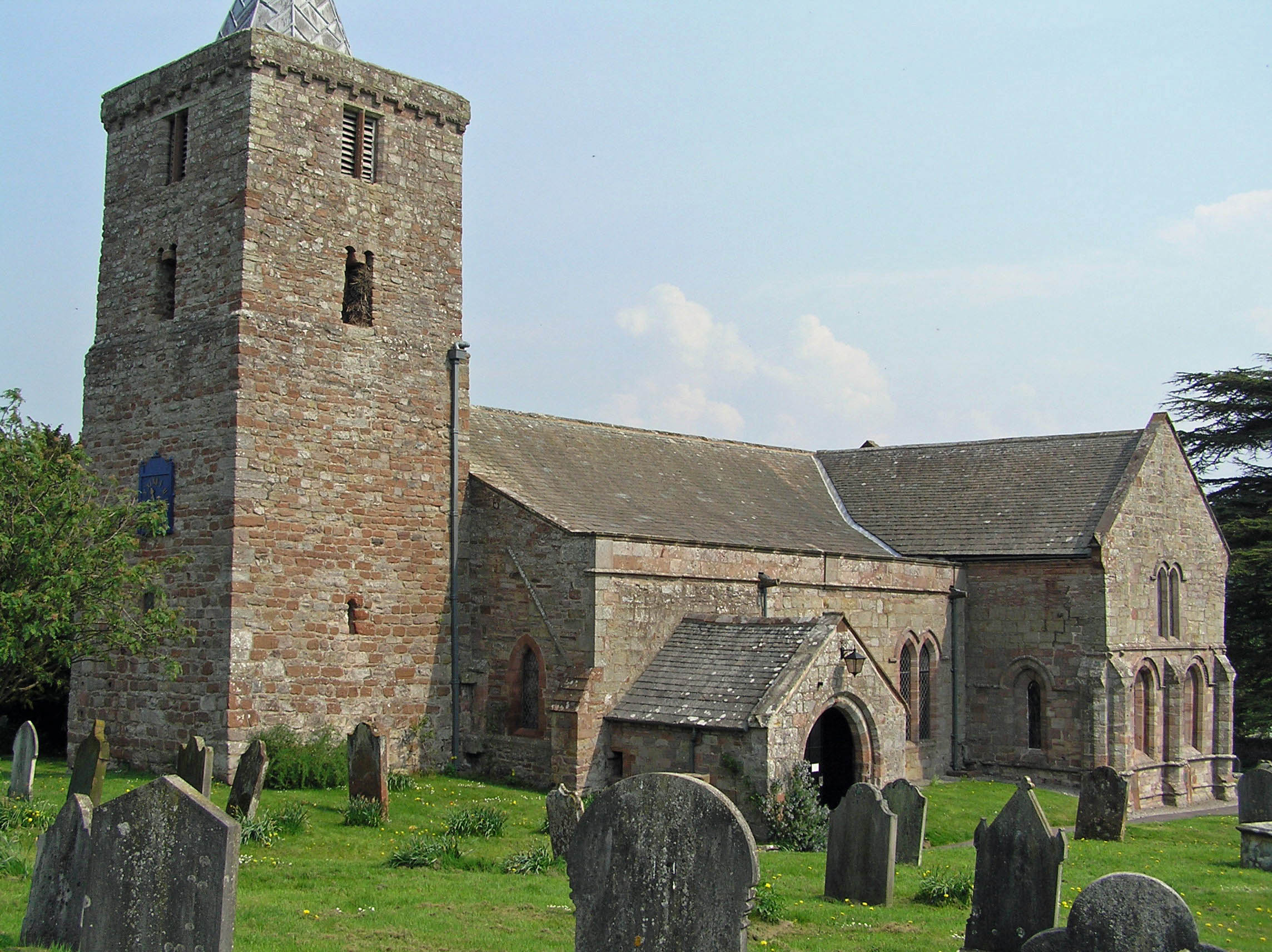 Morland church, Cumbria. Has the only tower of Anglo-Saxon character in the NW counties of England.